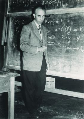 French mathematician Paul Dubreil at Lorenzenhof in 1954.